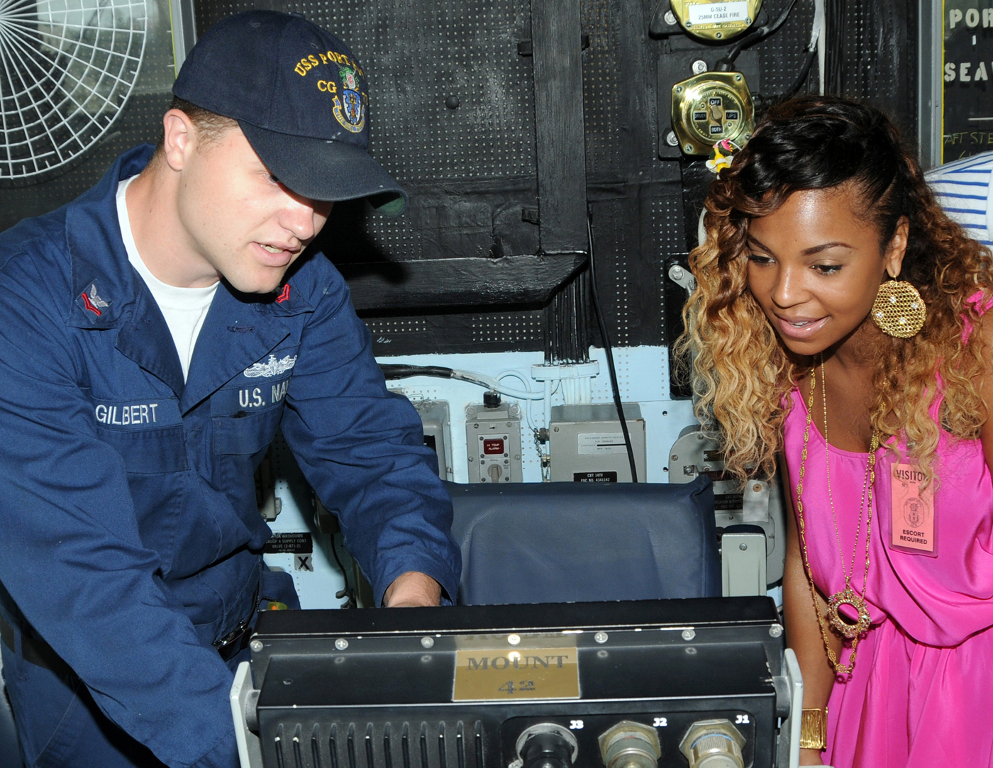 PEARL HARBOR (Jan. 5, 2009) Fire Controlman 2nd Class Cody Gilbert explains to recording artist and entertainer Ashanti different equipment on the bridge of the guided-missile cruiser USS Port Royal (CG 73). Ashanti toured the ship and signed autographs for crew members. (U.S. Navy photo by Mass Communication Specialist 2nd Class Robert Stirrup/Released)